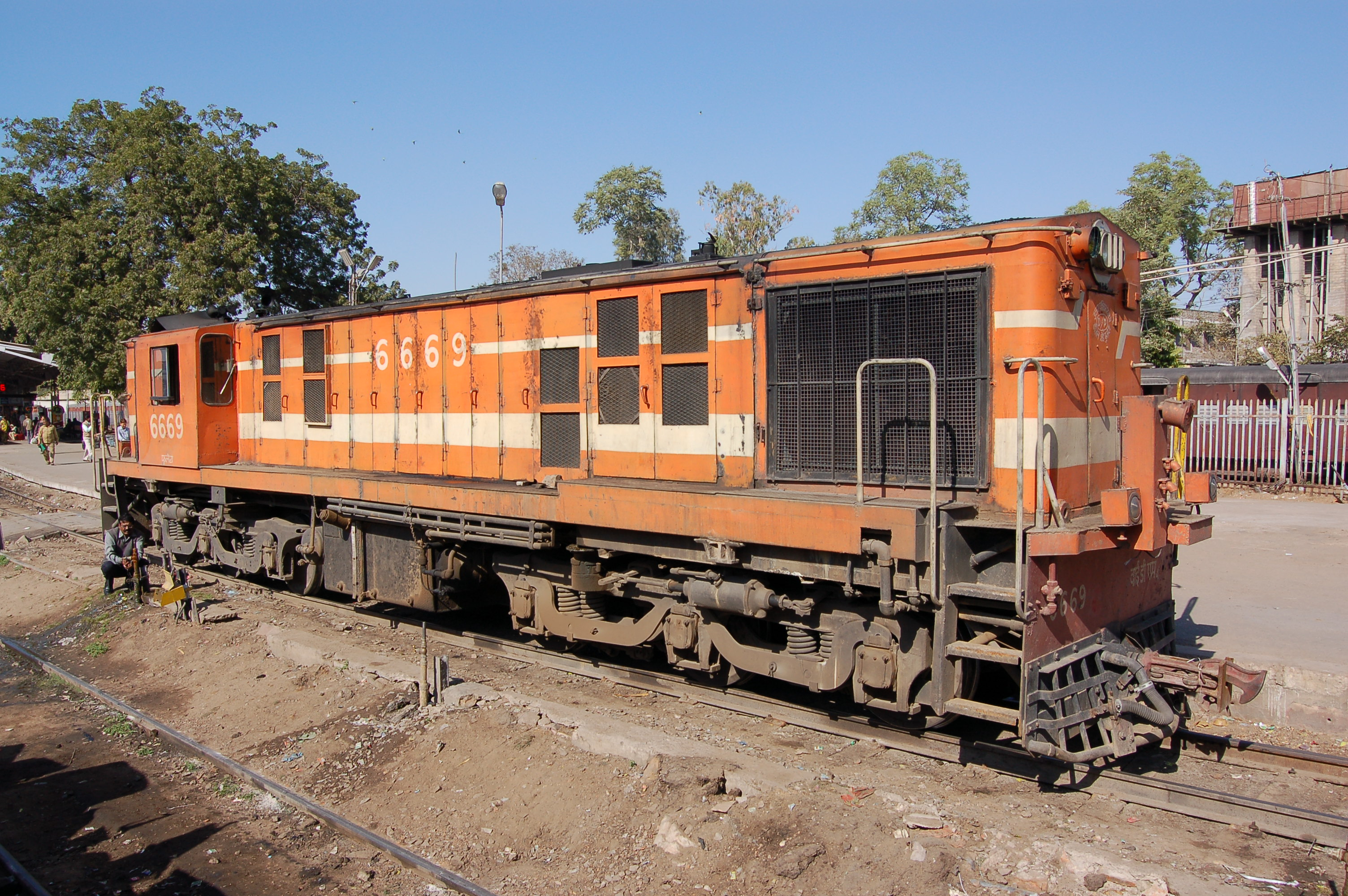 Portrait of Indian Railways metre gauge YDM-4 class diesel-electric locomotive no. 6669 at Jaipur Junction railway station (Indian Railways station code JP), Jaipur, India.